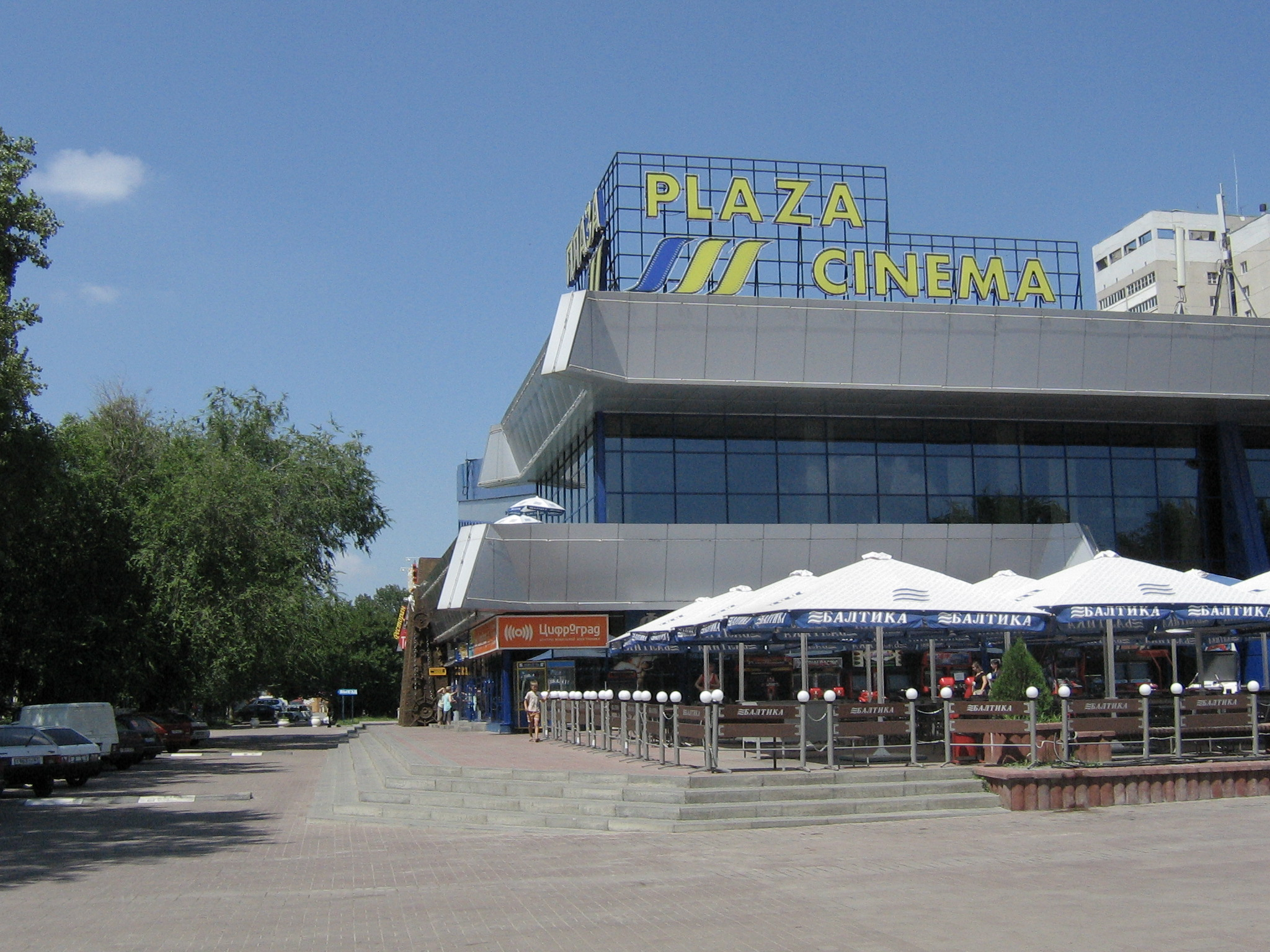 Plaza Cinema (Rostov-on-Don)